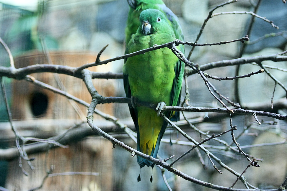 Buru Racquet-tail, Palette De Buru, or Lorito-momoto De Buru in captivity.